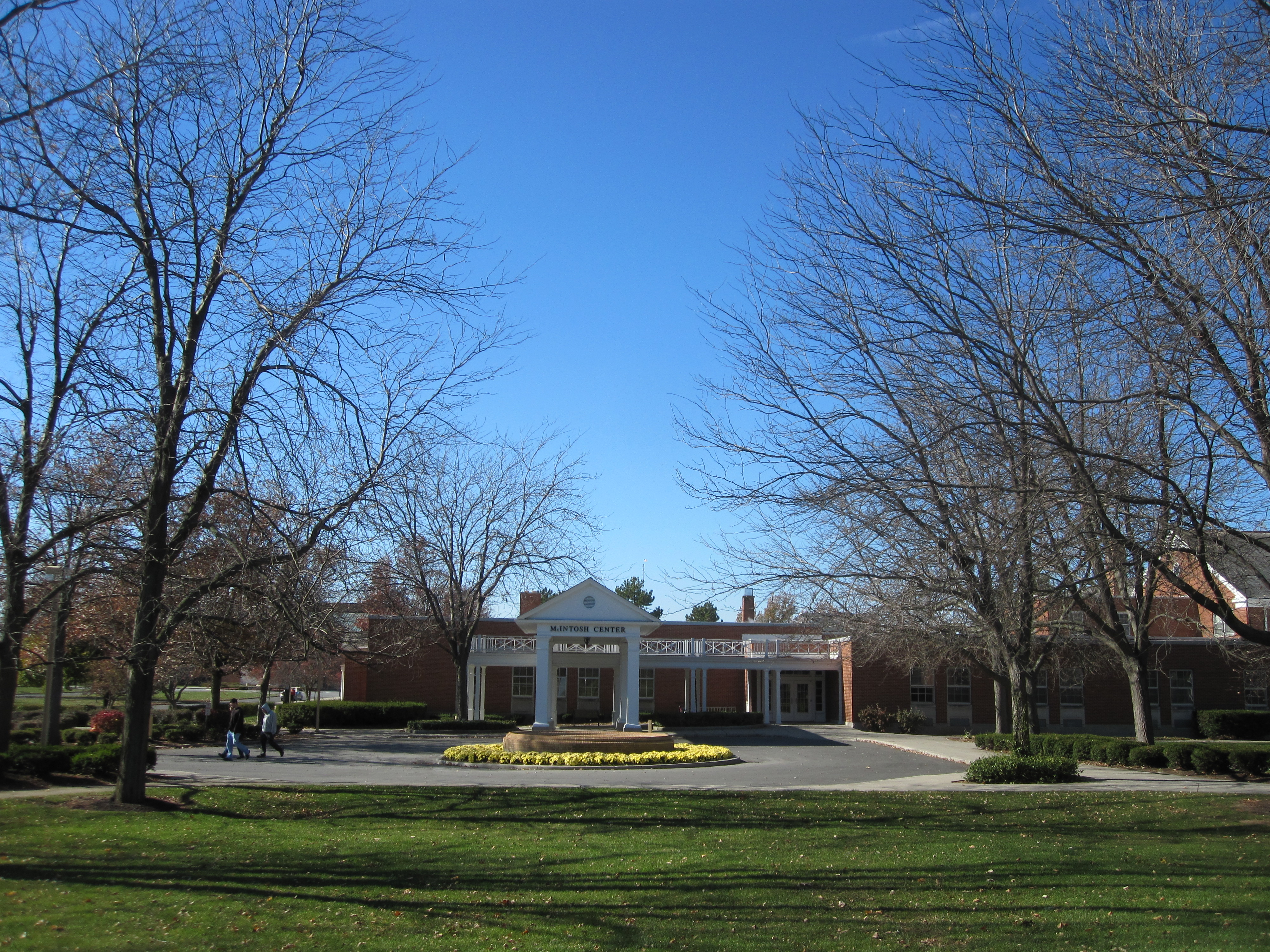 Photo of Ohio Northern University campus.